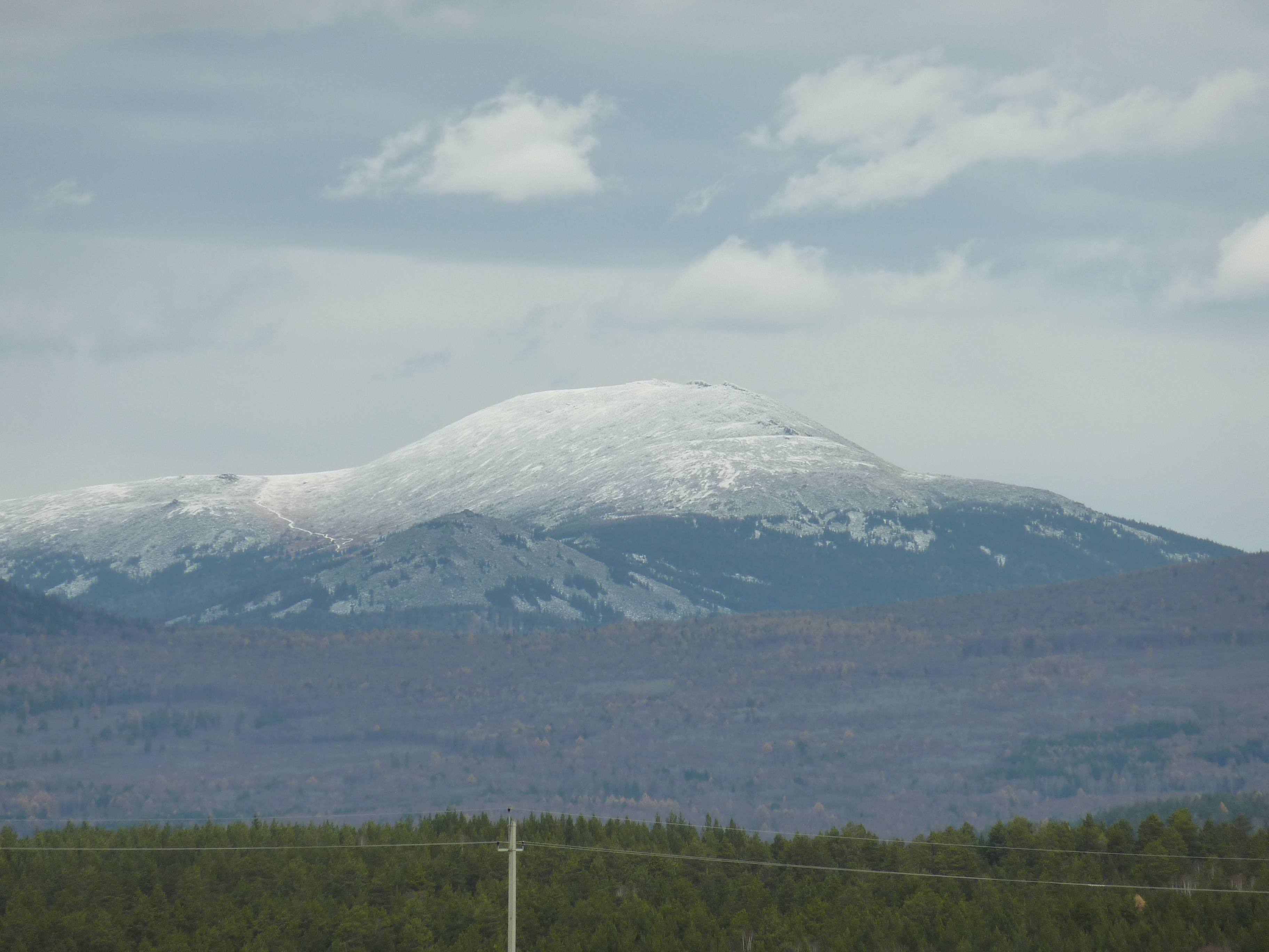 Iremel.